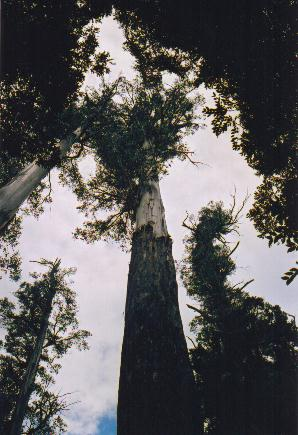 Tasmania, Styx Valley, the Eucalyptus regnans (Mountain Ash) central to this group is 92 metres high